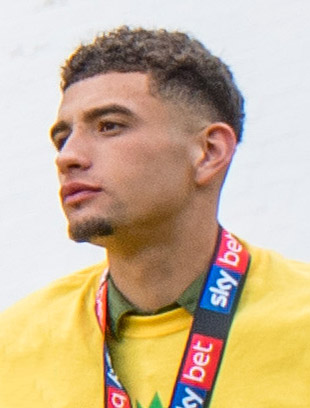 Ben Godfrey taking part in the Norwich City promotion celebrations on 6 May 2019